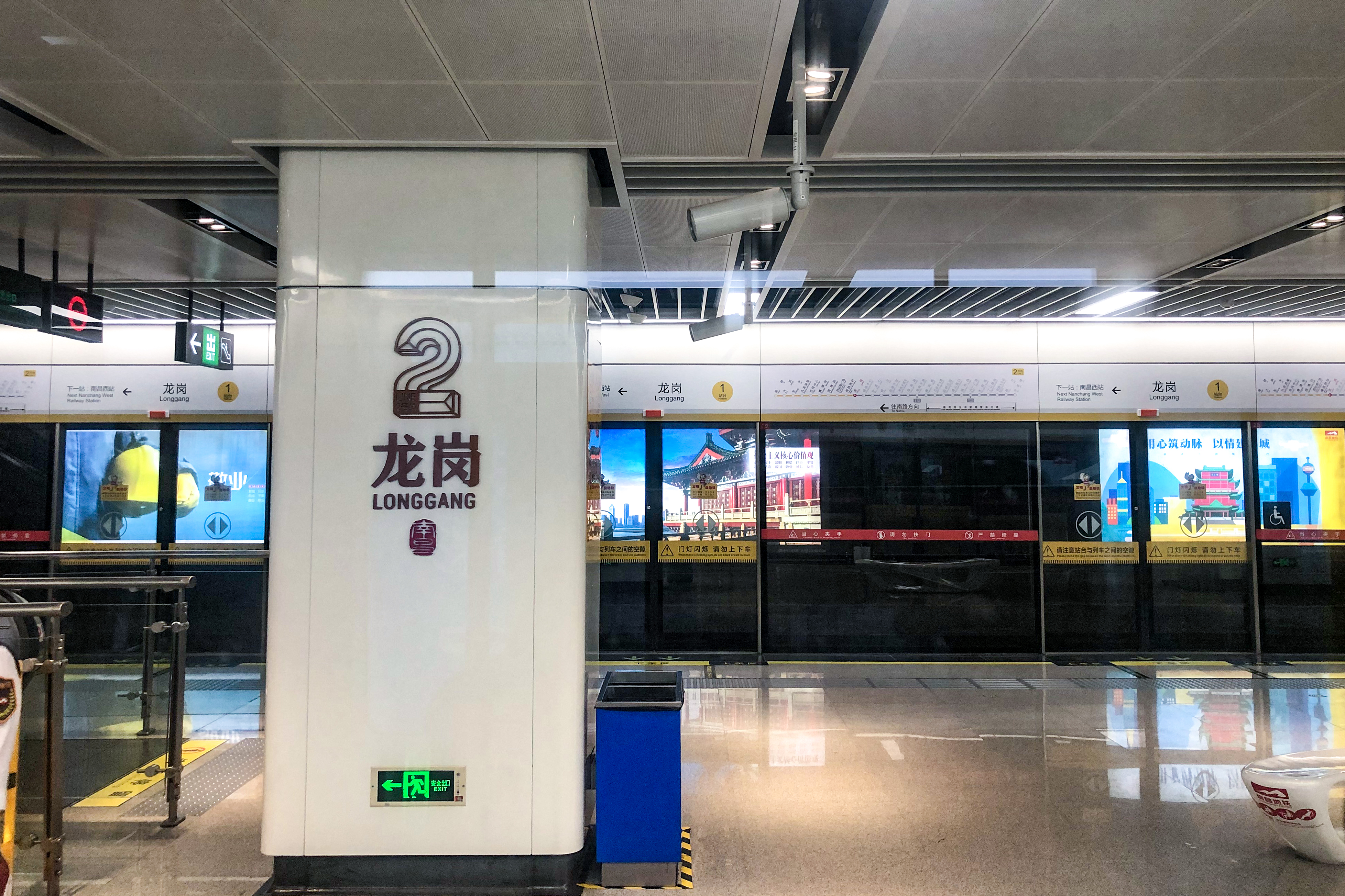 Too easy to be confused...